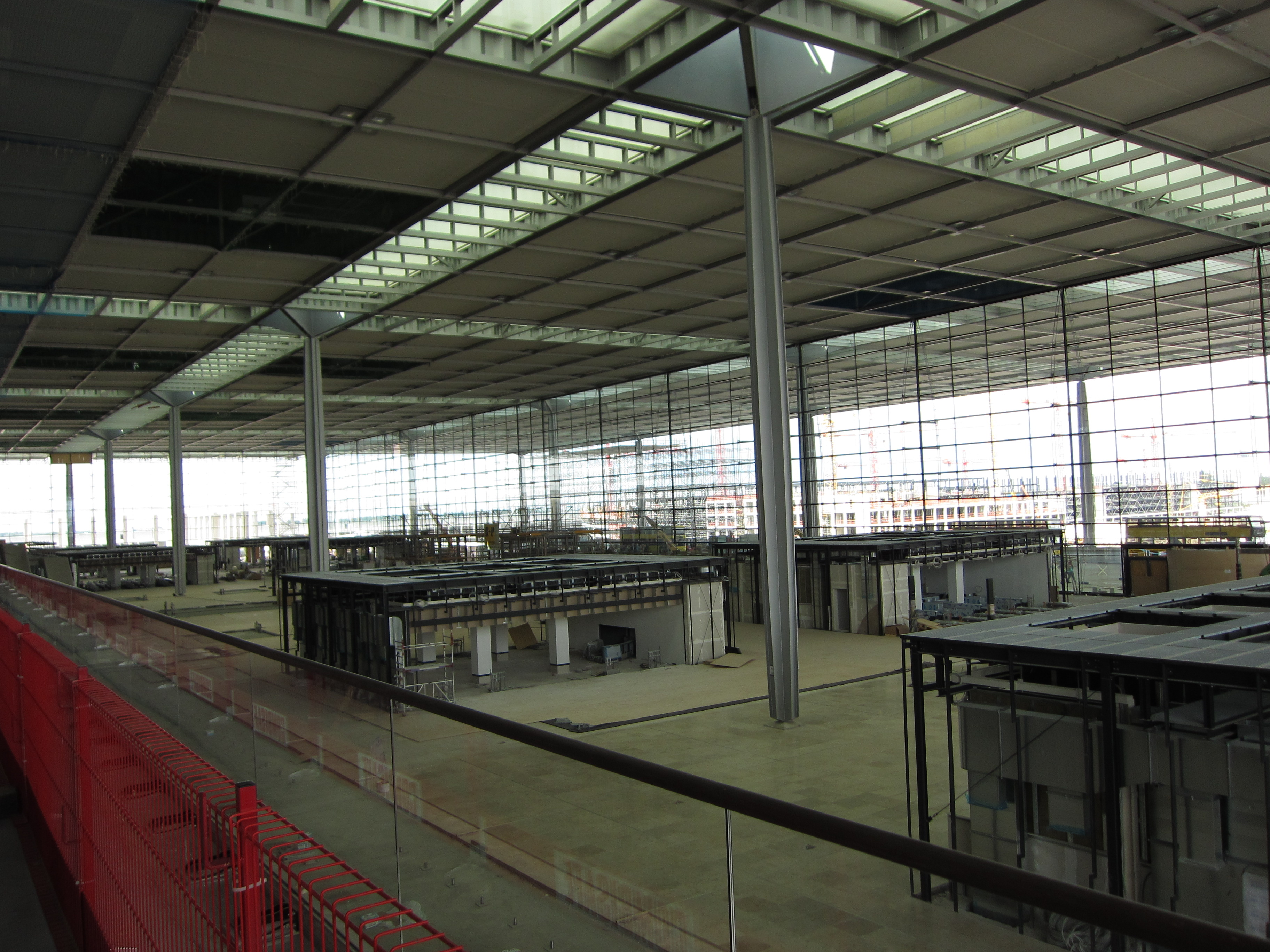 Airport Berlin Brandenburg with terminal building. Under construction, taken on open day event.